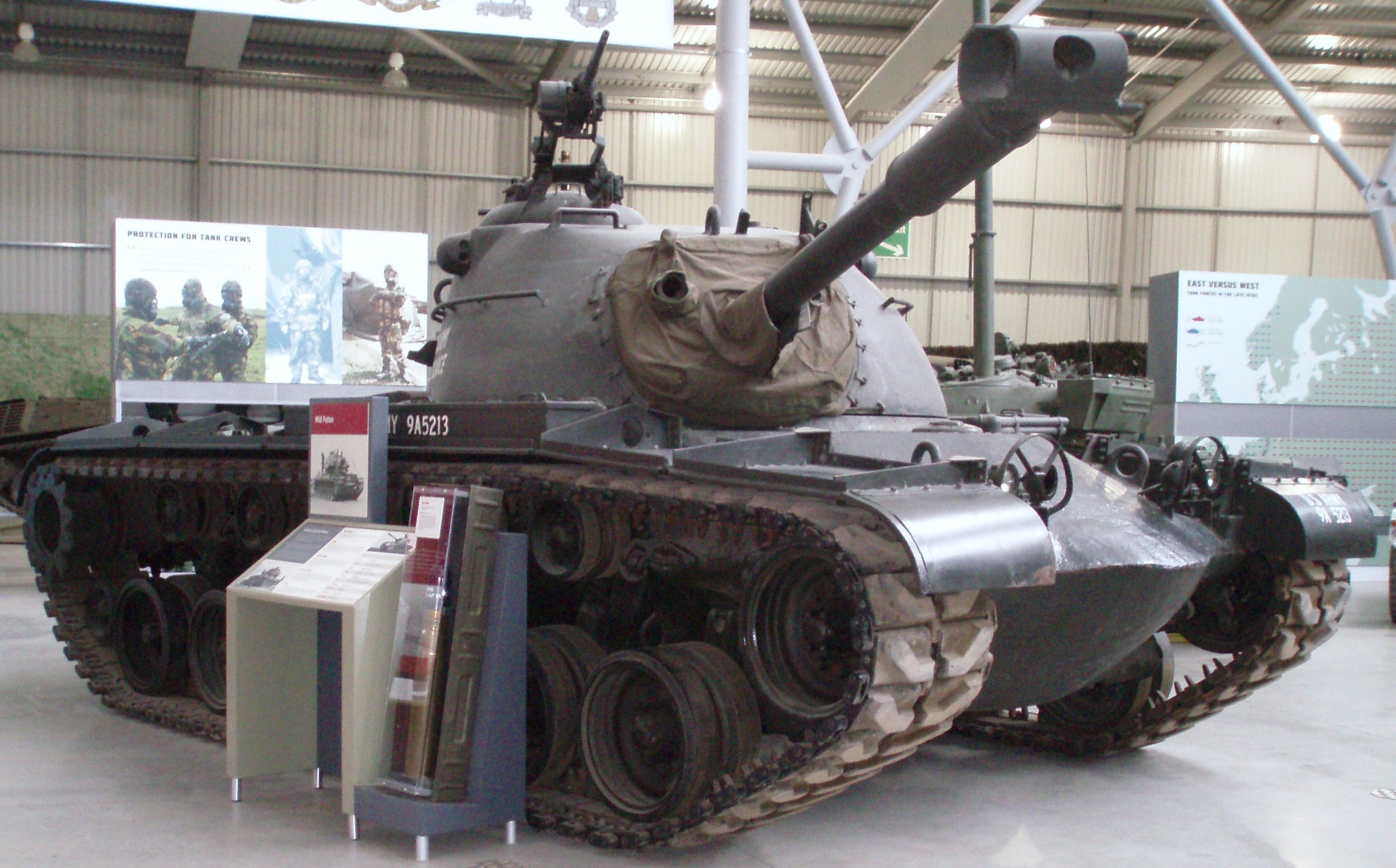 Bovington Tank Museum 138 M48